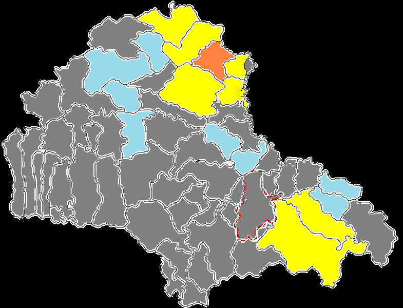 Hungarian minority in Brașov County (Romania), according to the 2011 census, by communes (orange = hungarian majority between 50 - 70%, yellow = hungarian minority over 20%, blue = hungarian minority between 10 - 20%, grey = hungarian minority under 10%).